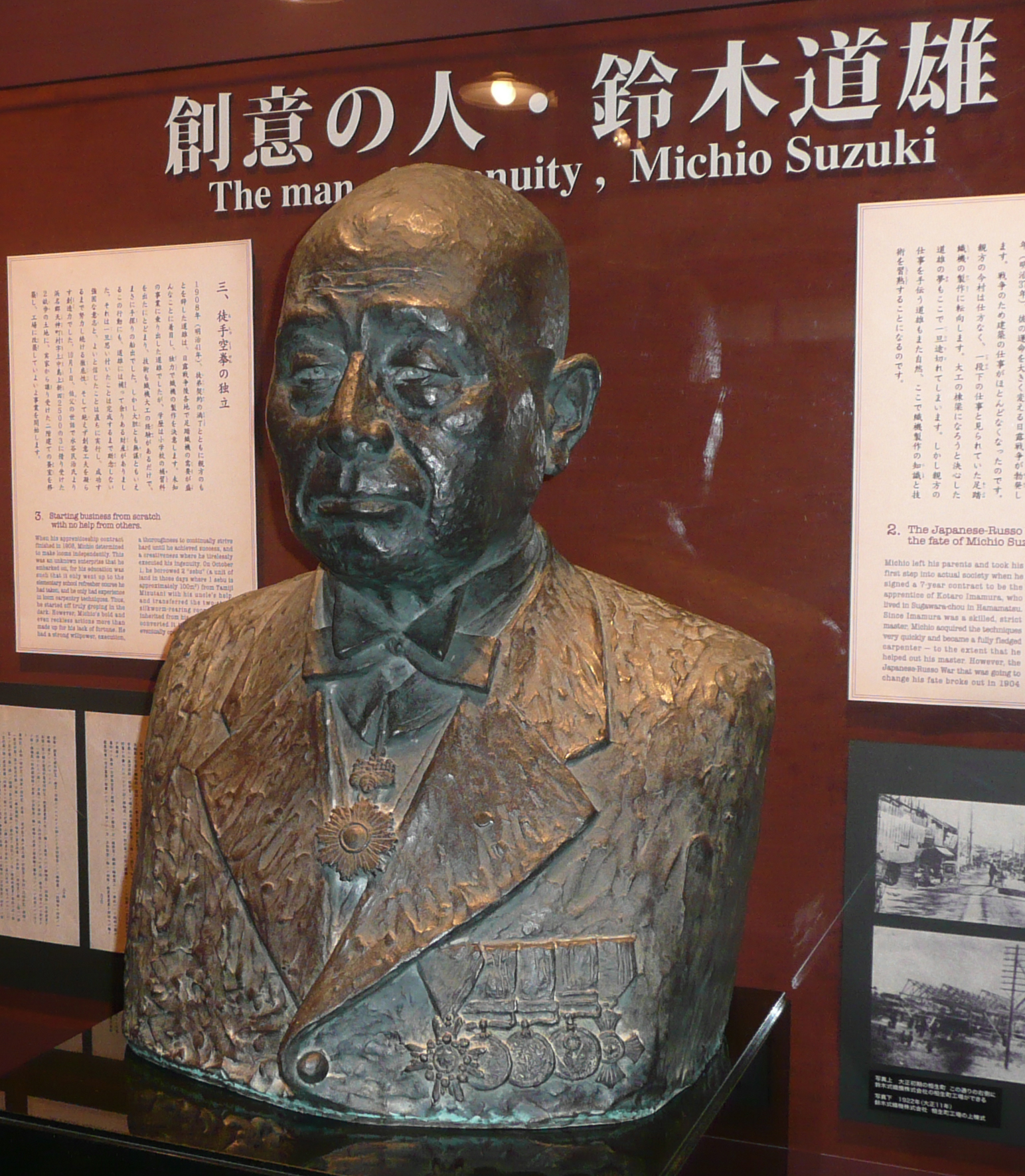 Michio Suzuki, founder of Suzuki, Japan